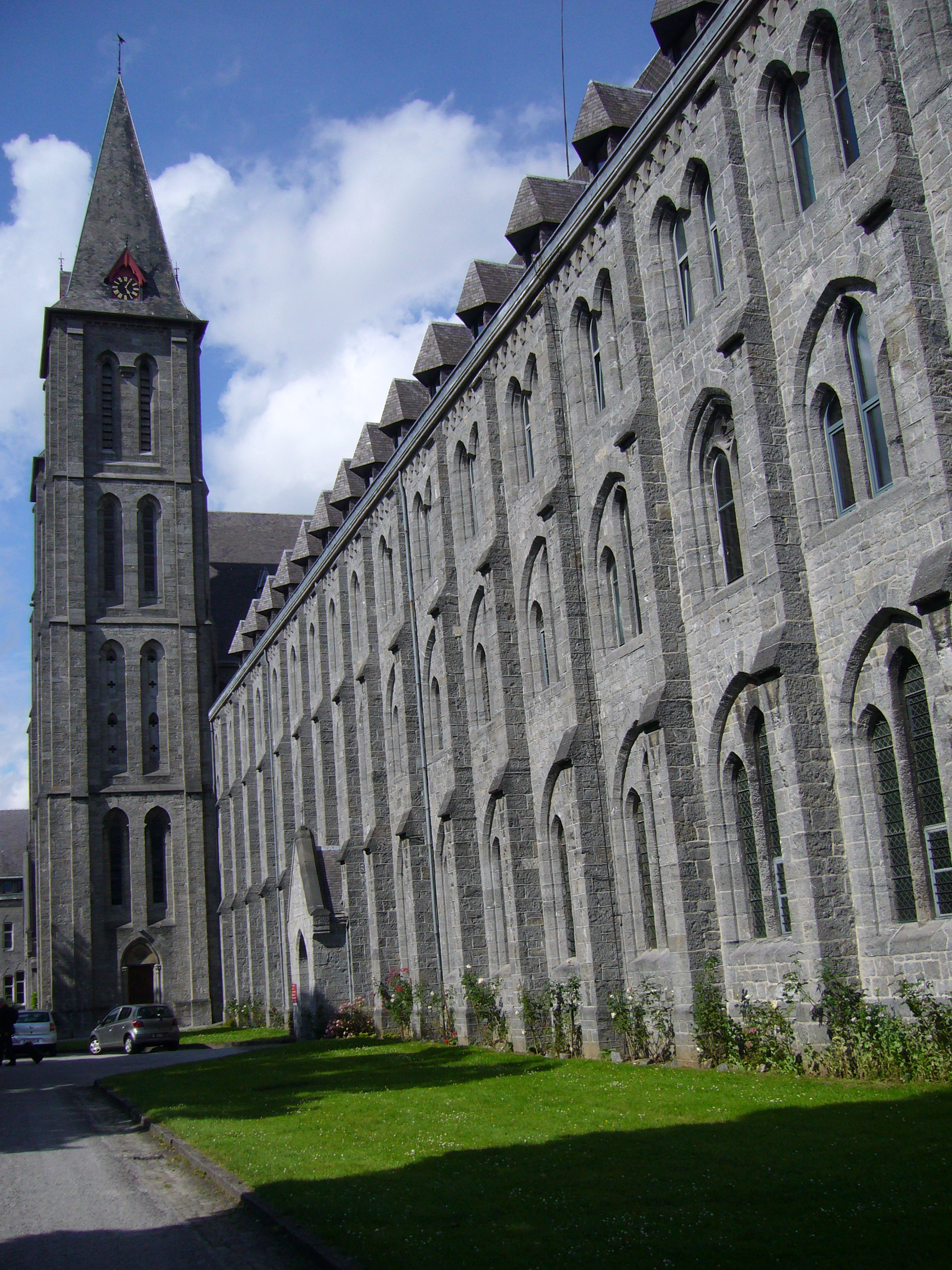 Abbaye de Maredsous